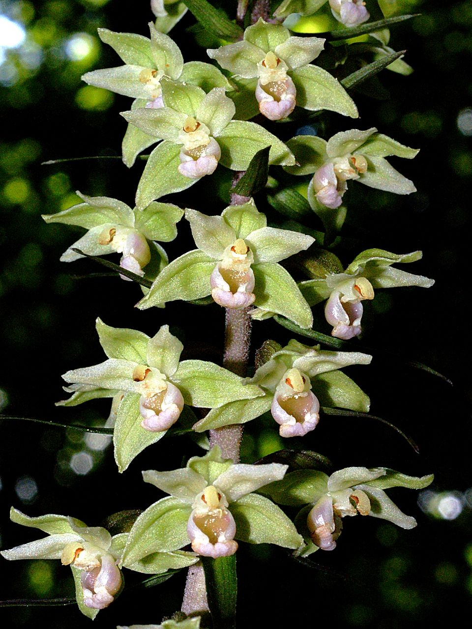 Epipactis purpurata - flowers